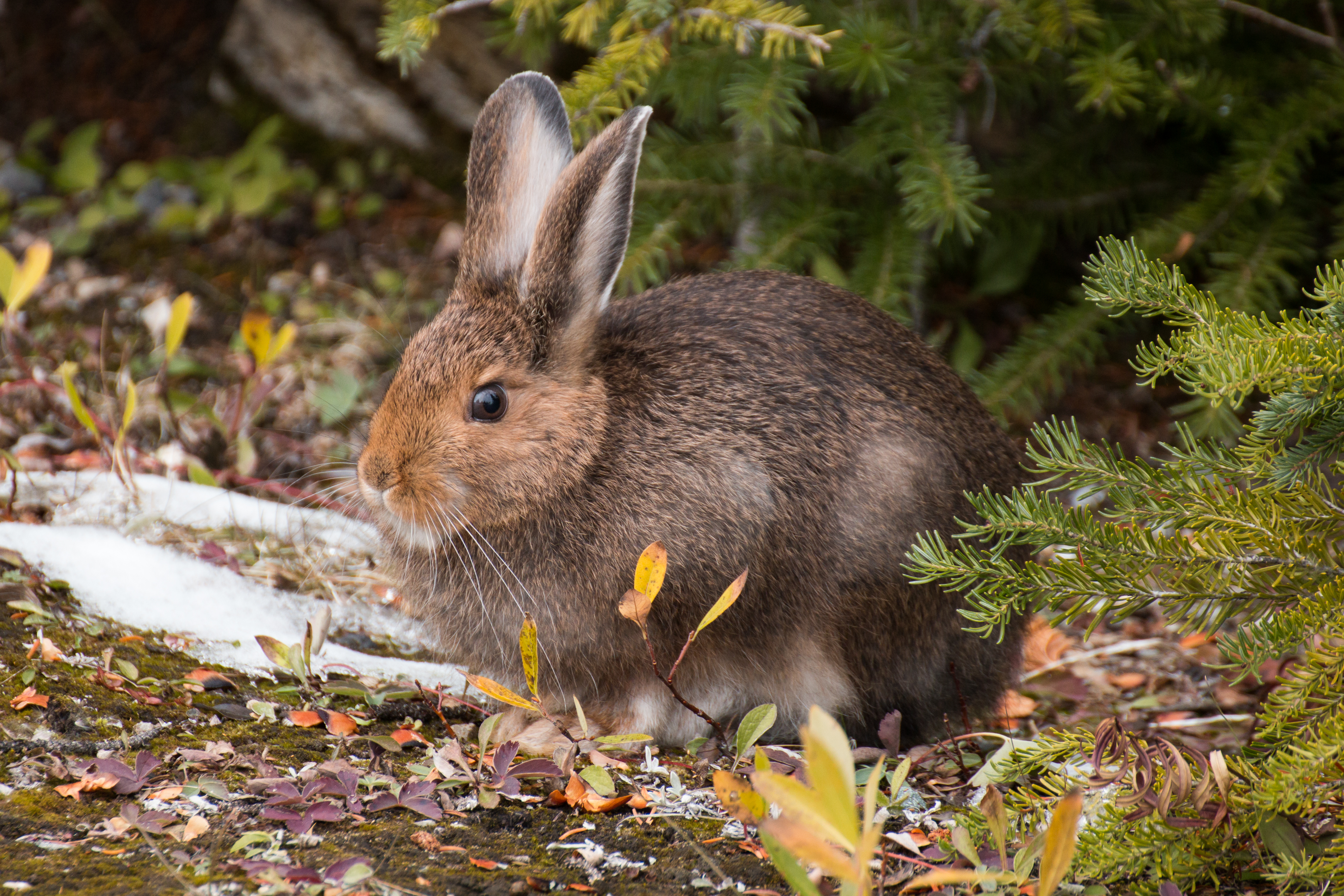 Snowshoe Hare in Banff national park, near Peyto lake